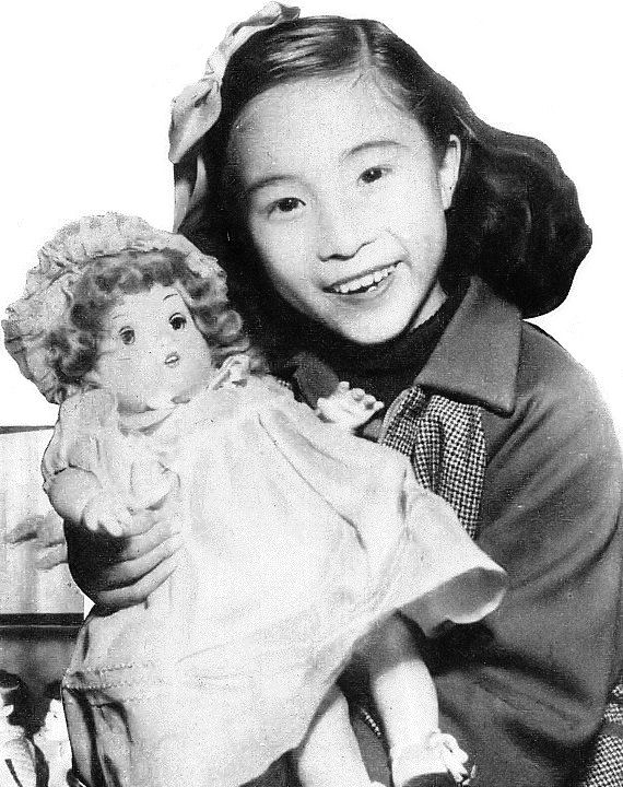 Mizue Shiratori